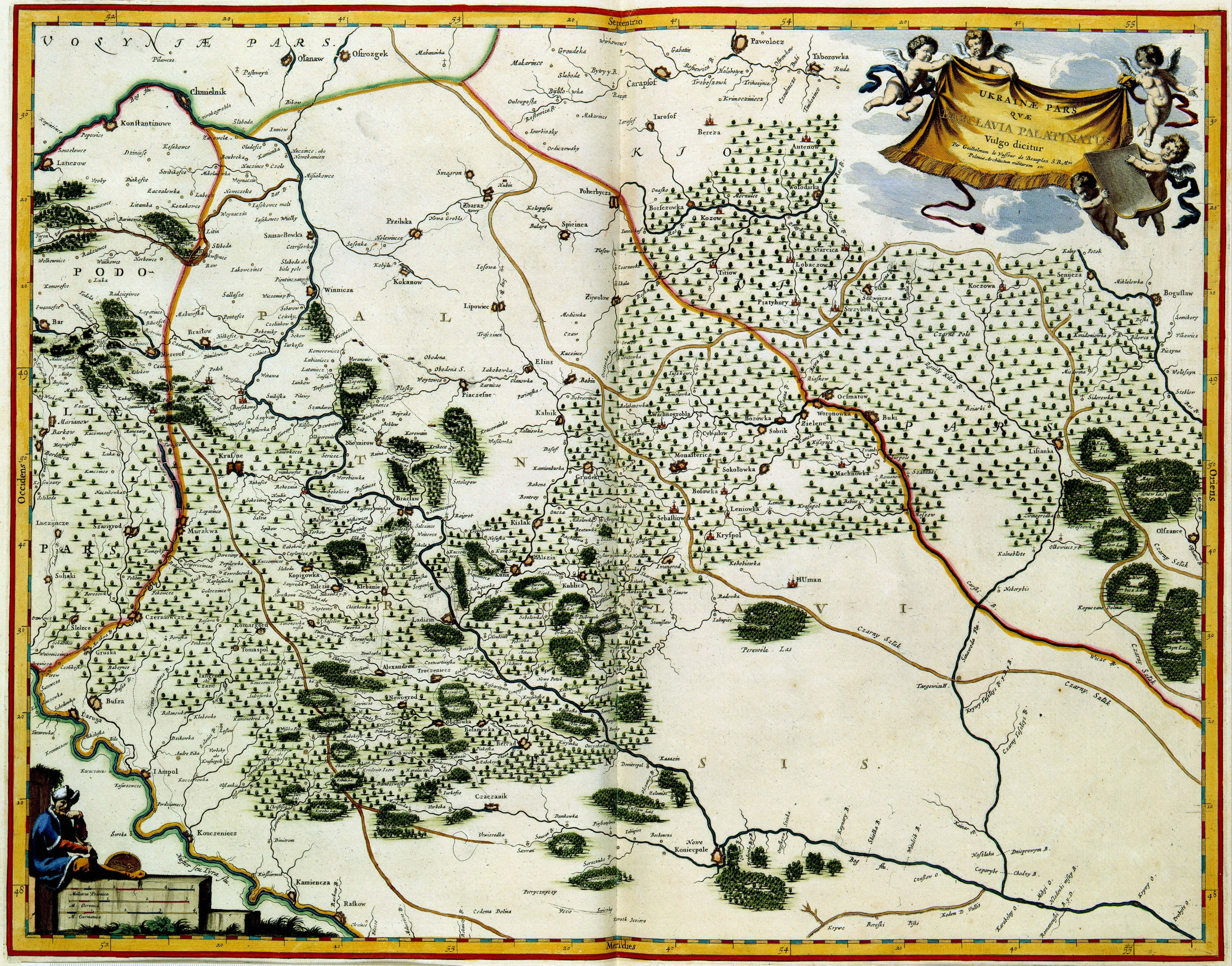 Ukraine. Braclavia